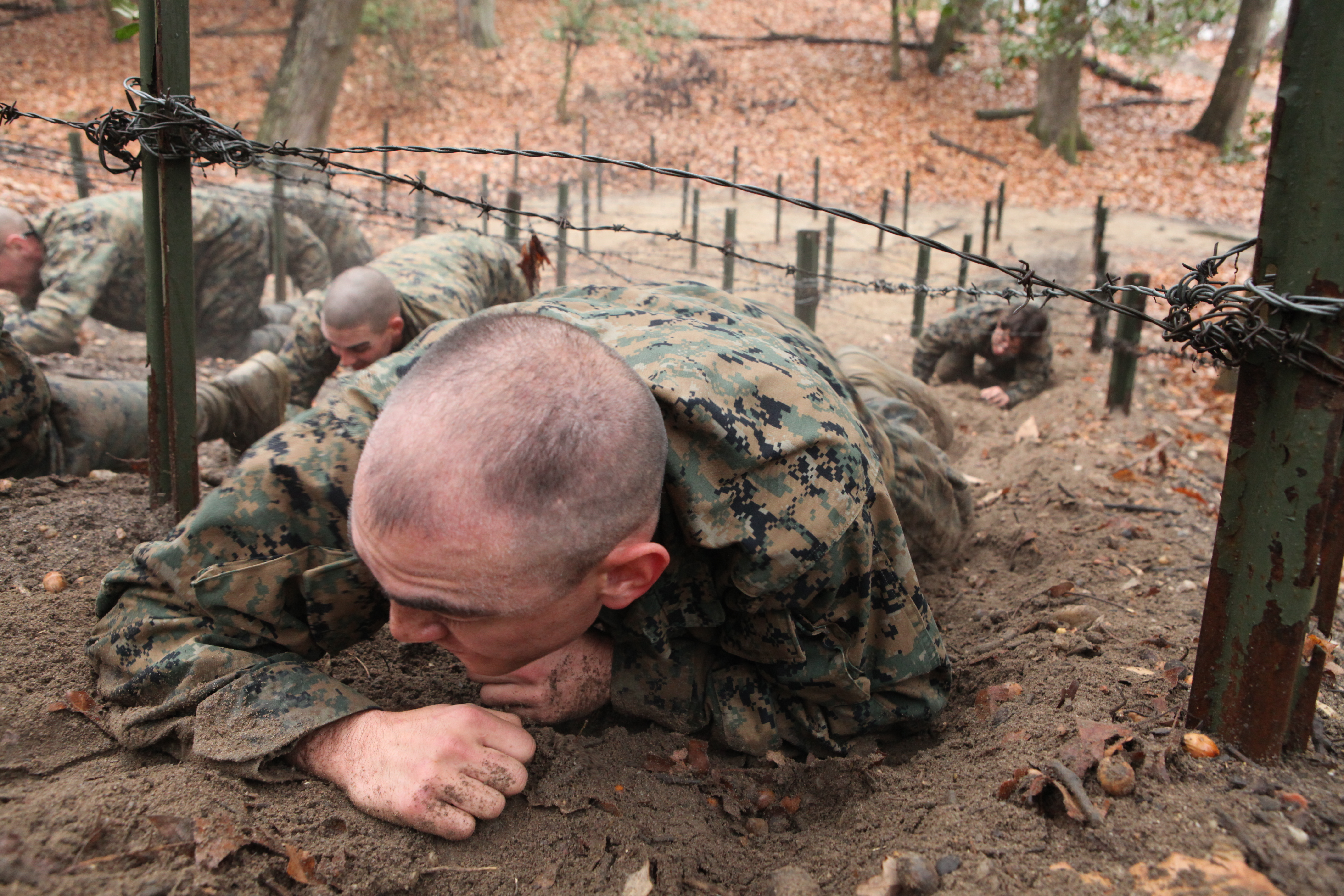 A U.S. Marine enrolled in Officer Candidate School low-crawls under a barbed wire obstacle on the Montford Point Challenge obstacle course at Marine Corps Base Quantico, Va, Dec. 8, 2012. The Montford Point Challenge was designed in 2011 to give officer candidates a taste of the hardships of the first African-Americans allowed to enlist in the Marine Corps. (DoD photo by Sgt. Christopher A. Green, U.S. Marine Corps/Released)